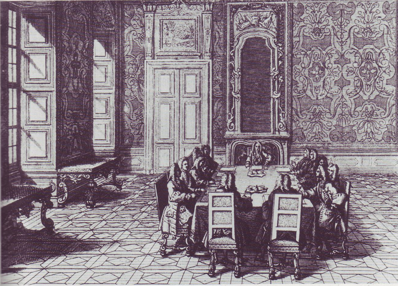 Consultation in the Belvedere presided by Prince Eugene of Savoy (1663-1736) by Johann Bathasar Probst after an engraving by Salomon Kleiner, Historic Museum, Vienna. Copperplate engraving, 28,8 x 39,2 cm.